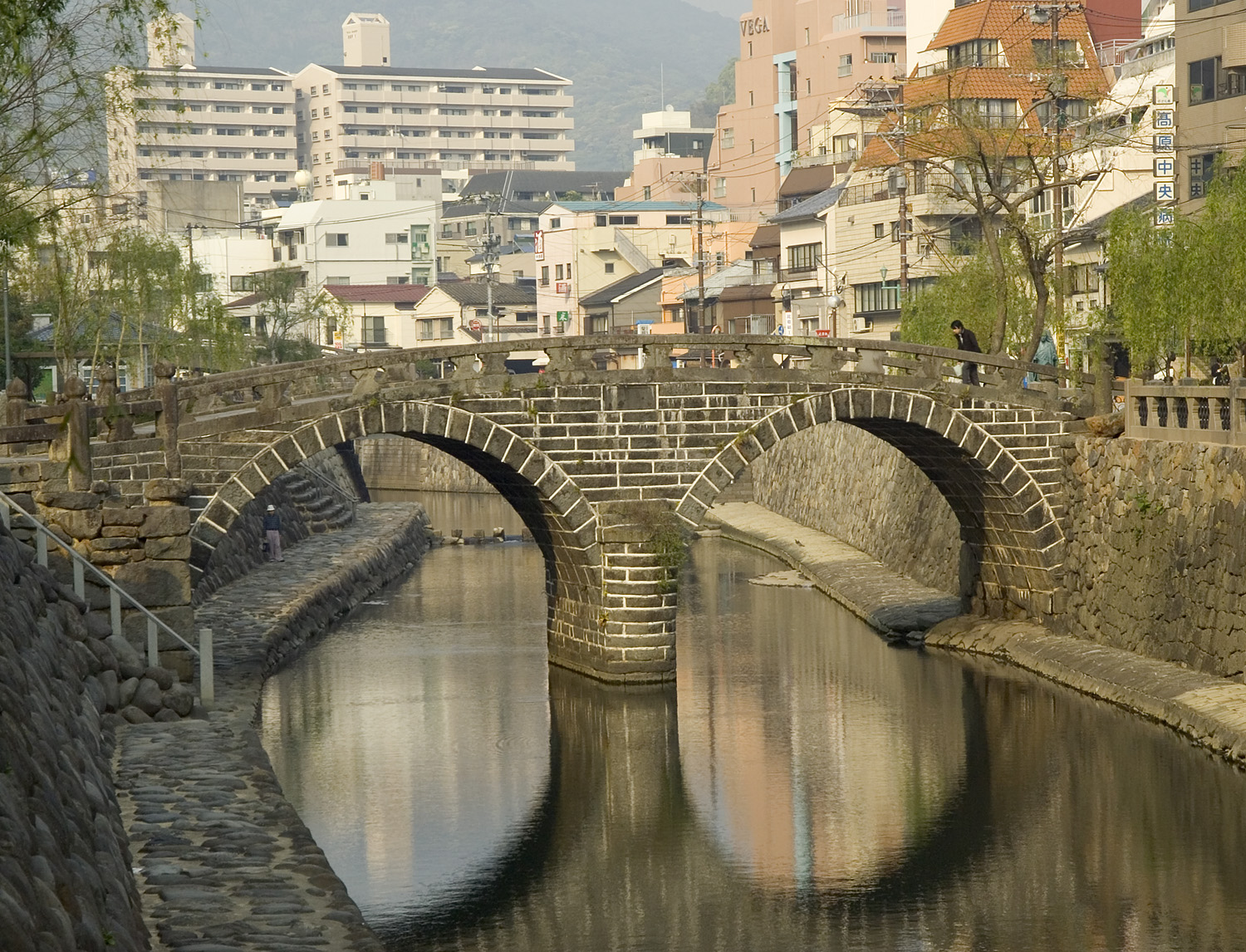 Megane-bashi, the Eyeglasses (or Spectacles) Bridge in Nagasaki, Japan